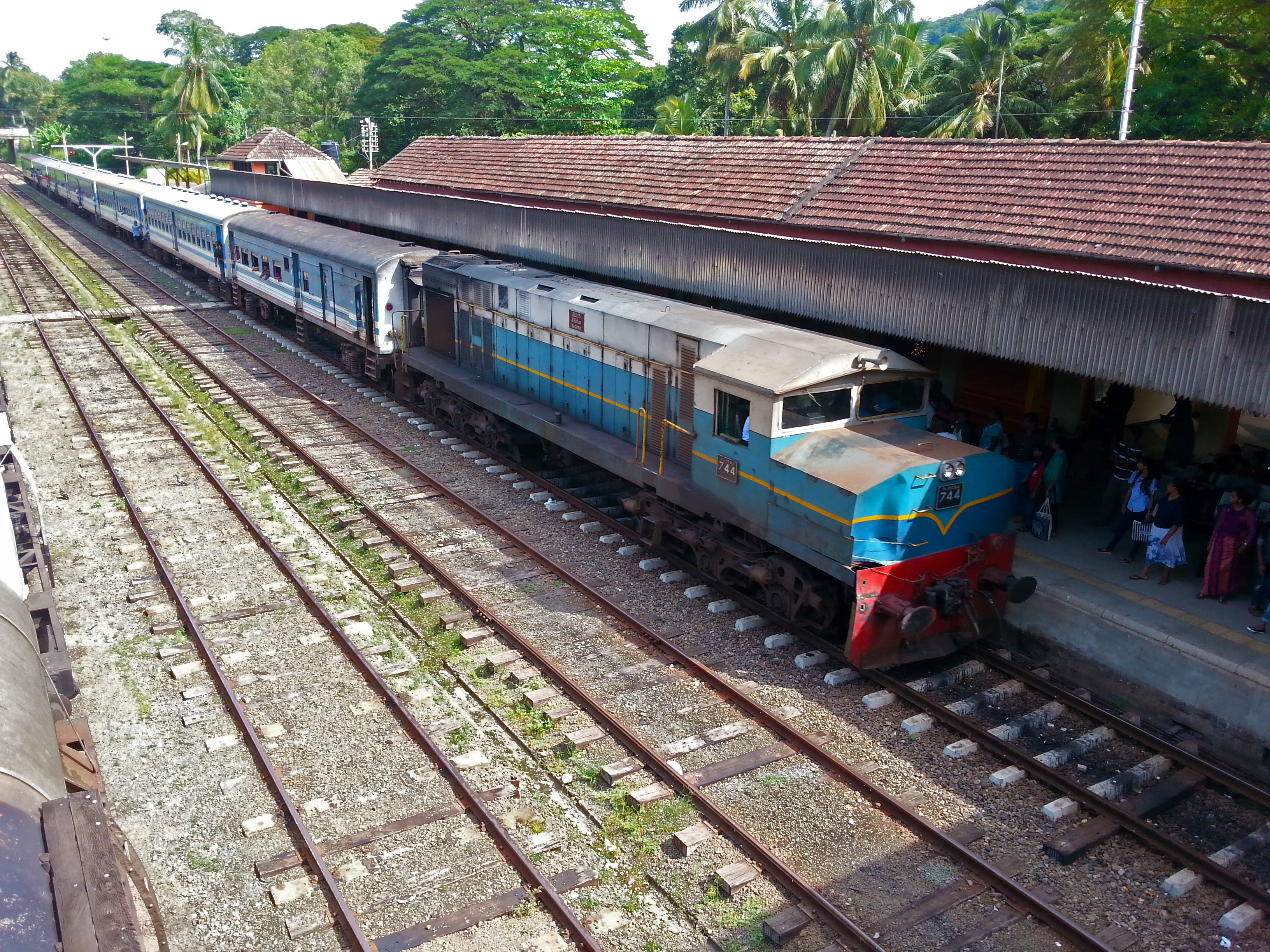 Udaya Devi Express Train at Kurunegala Railway Station, heading Colombo Fort